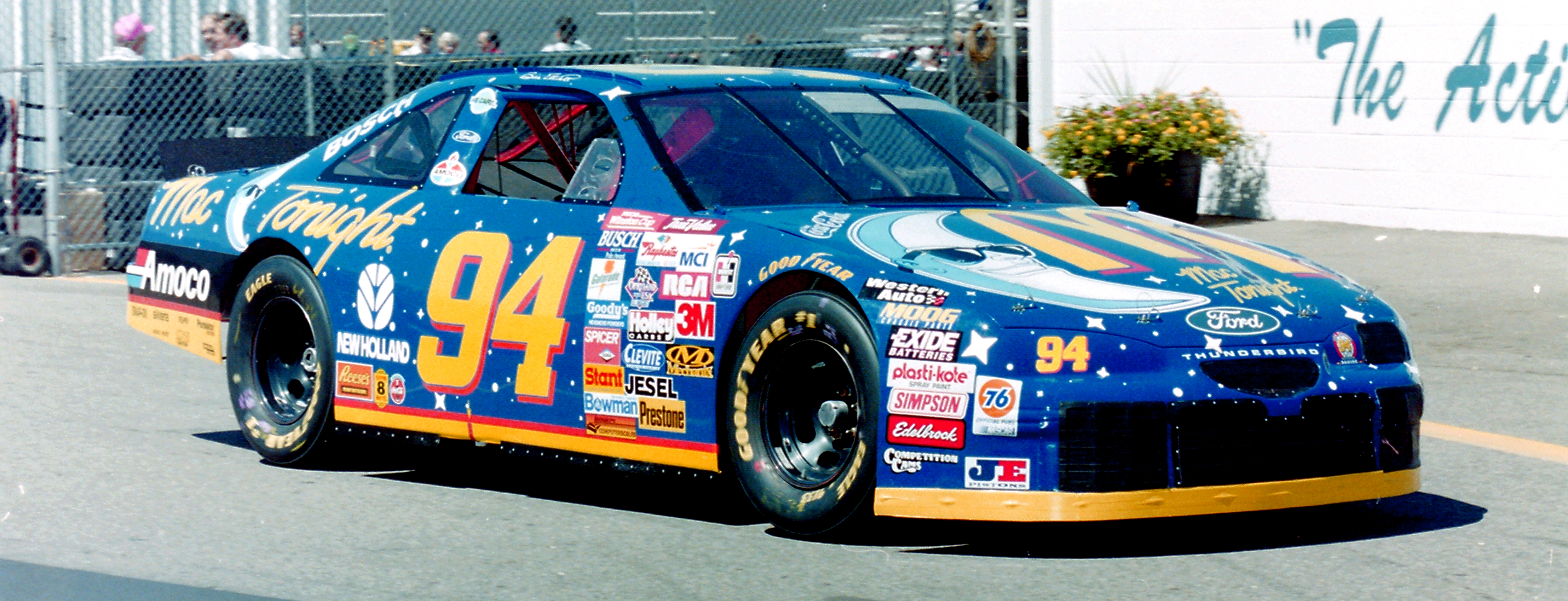 Bill Elliott drives the Mac Tonight Thunderbird through the garage at Richmond International Raceway, September 1997.